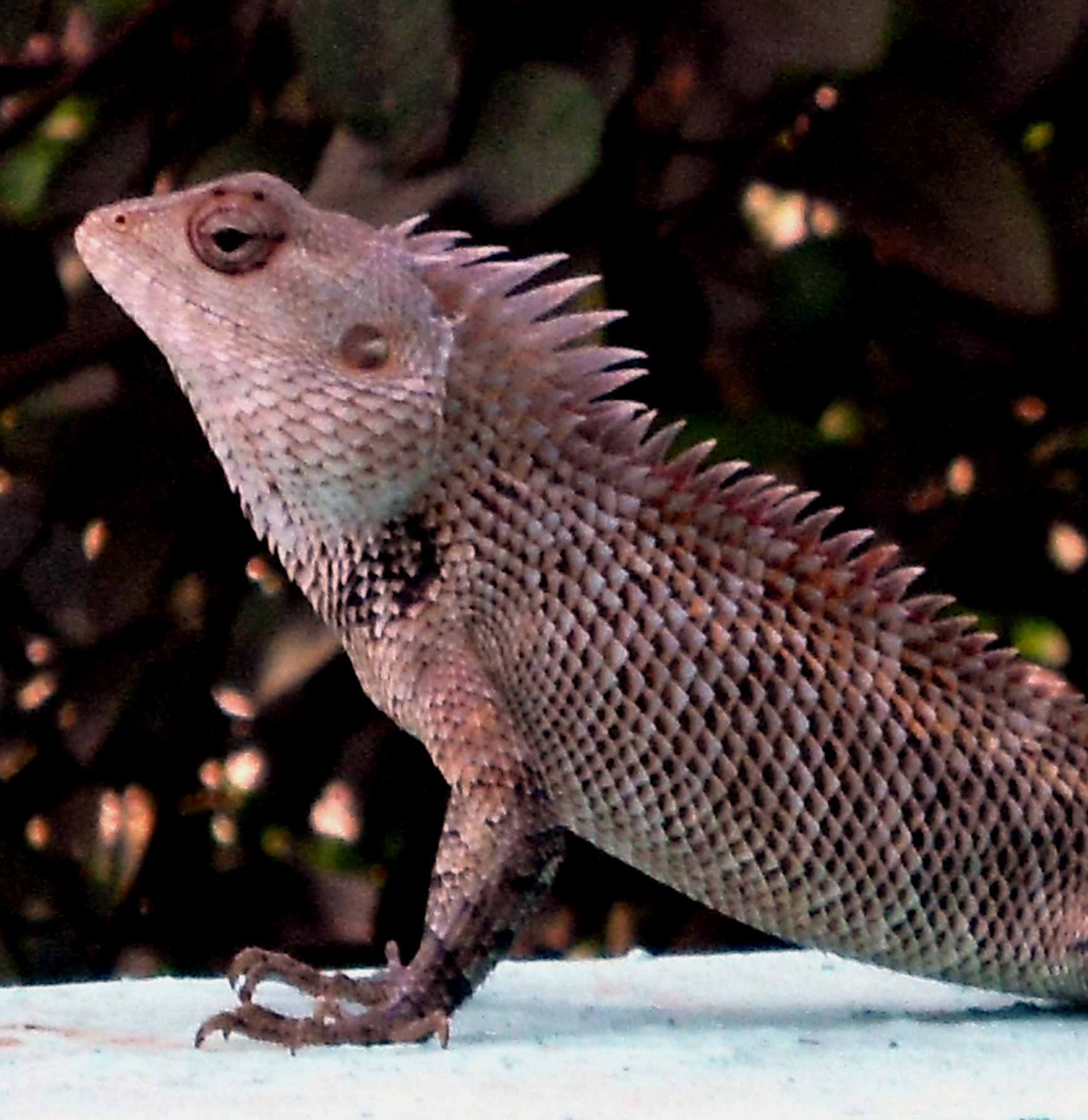 Calotes versicolor (Garden Lizard) spotted at Madhurawada, Visakhapatnam